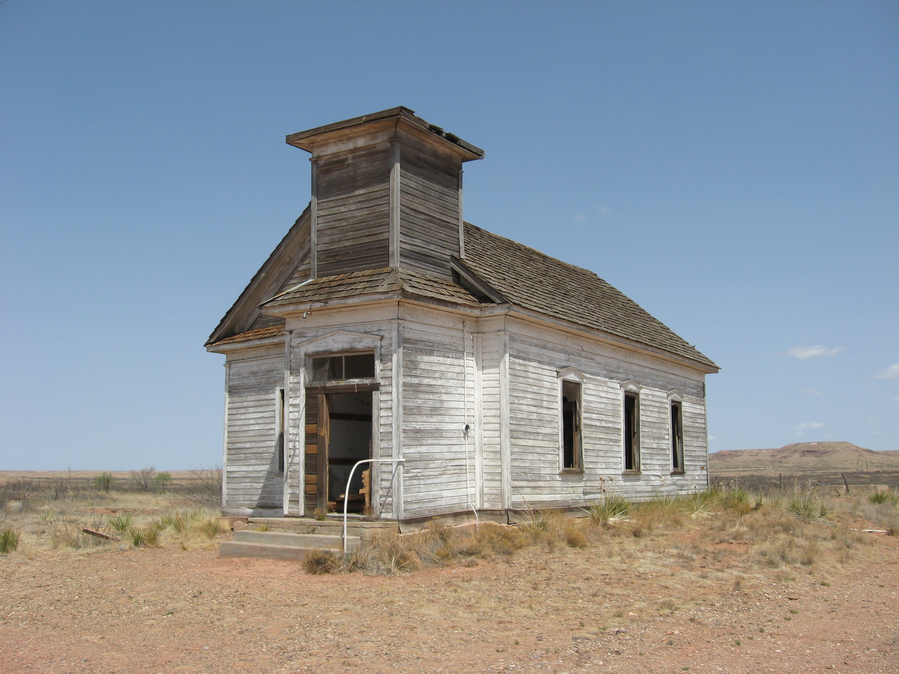 Abandoned Presbyterian church in Taiban, New Mexico